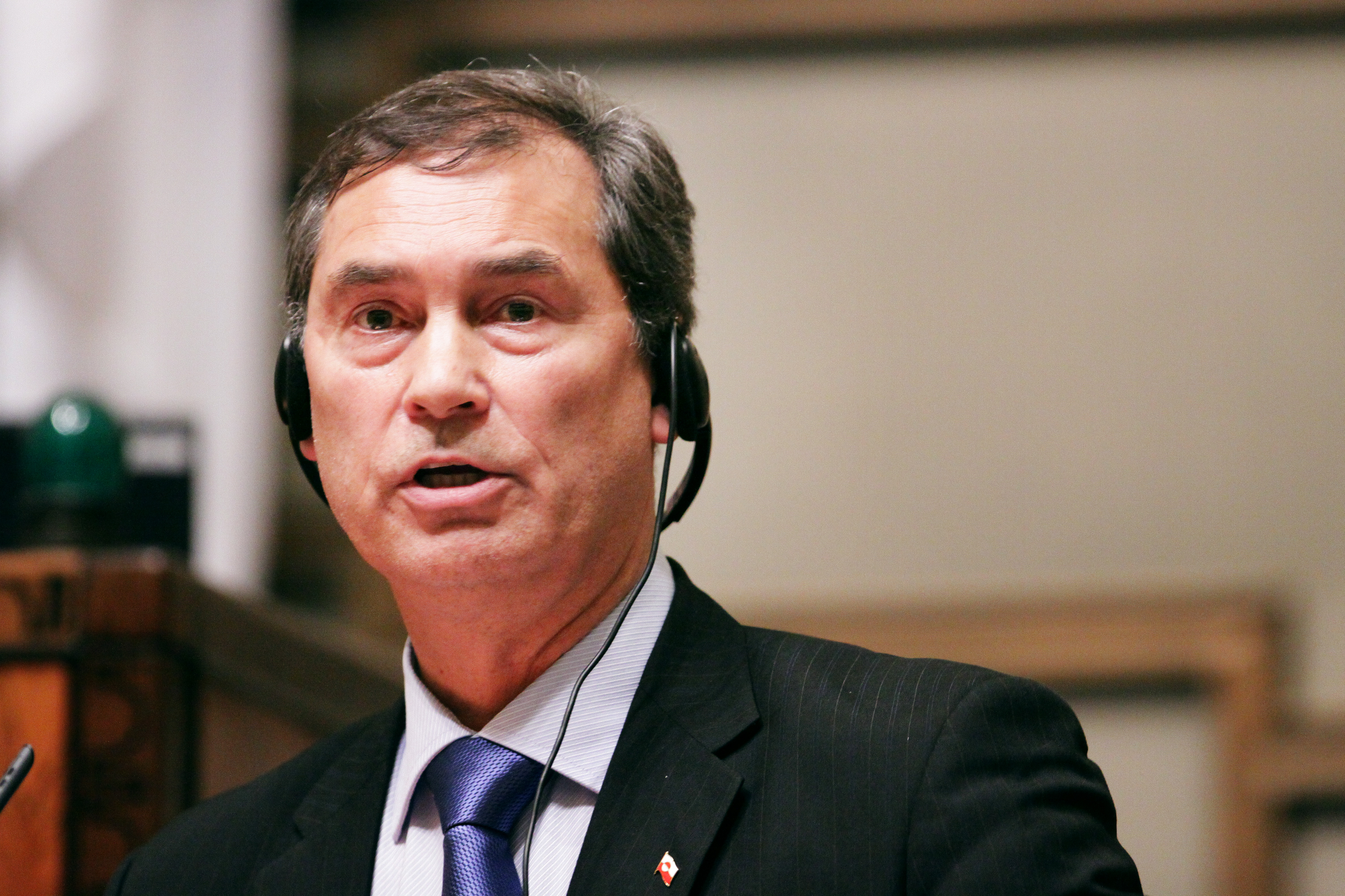 Vicelandsstyreformand Finn Karlsen (A) talar vid Nordiska Rådets session i Helsingfors 2008-10-28.